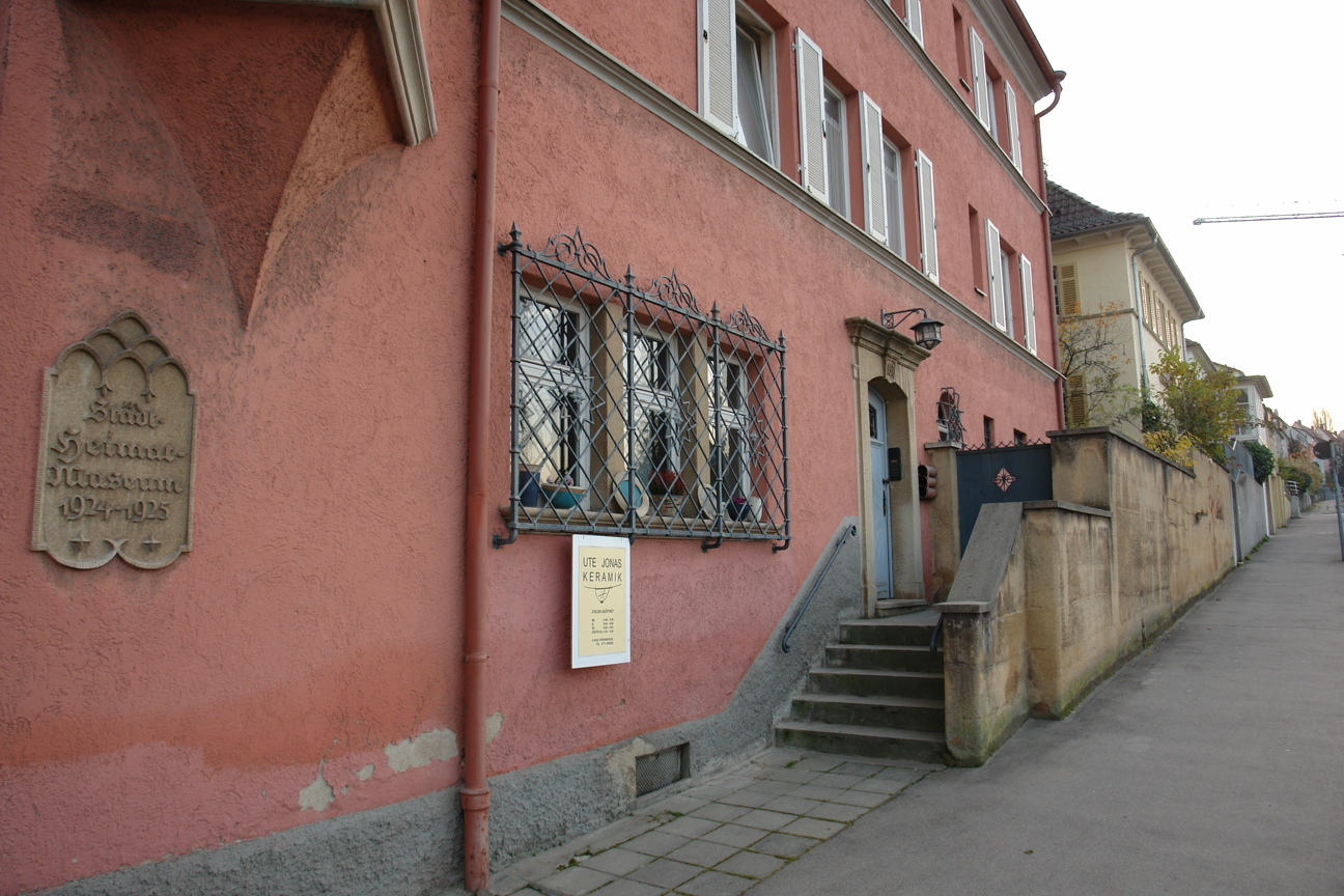 Former Local History Museum of protestant parish pastor Richard Kallee in Wiener Straße 157, 70469 Stuttgart-Feuerbach